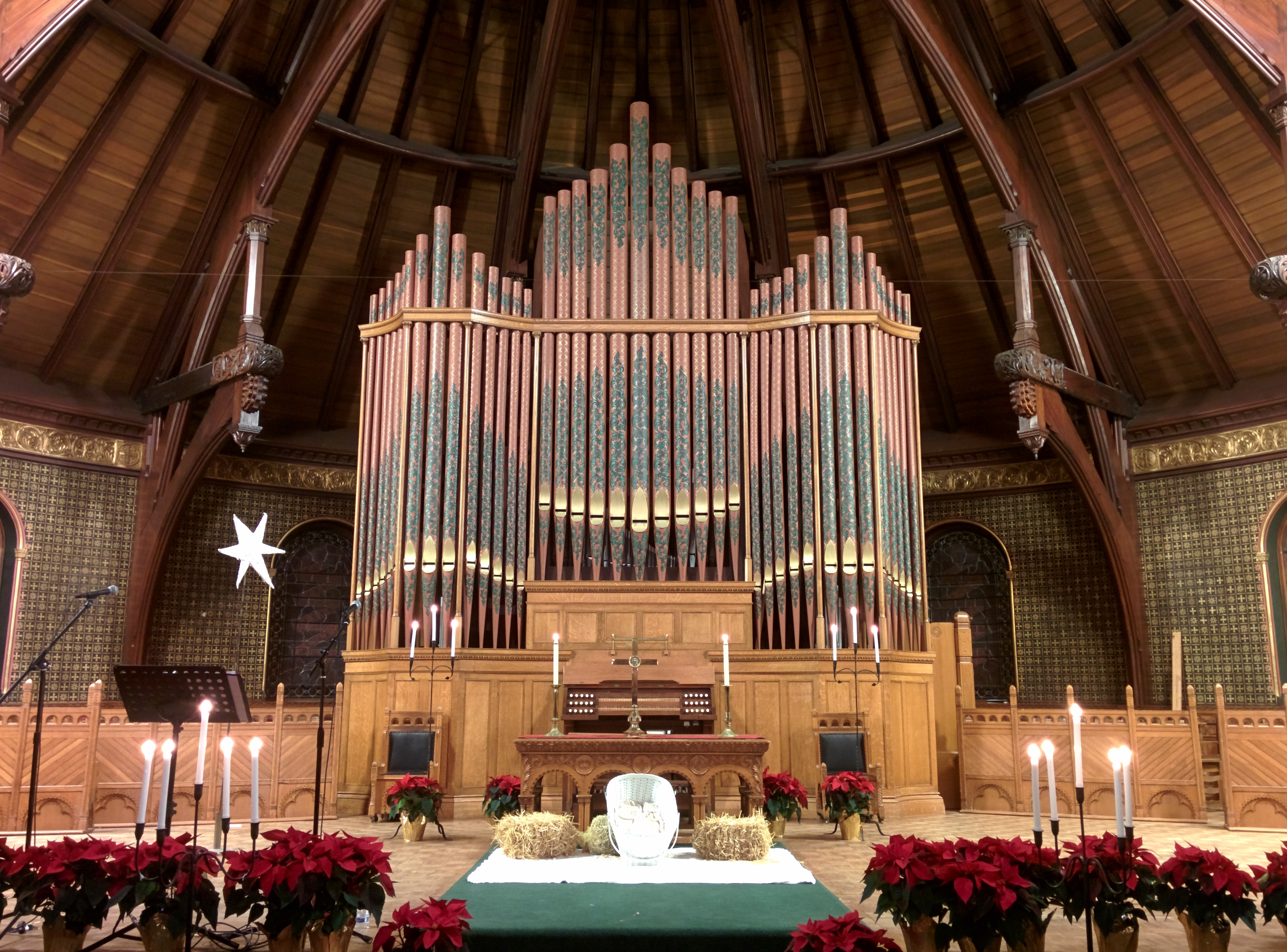 First Baptist Church in Newton (Massachusetts) Sanctuary prior to the christmas pageant, 2014.